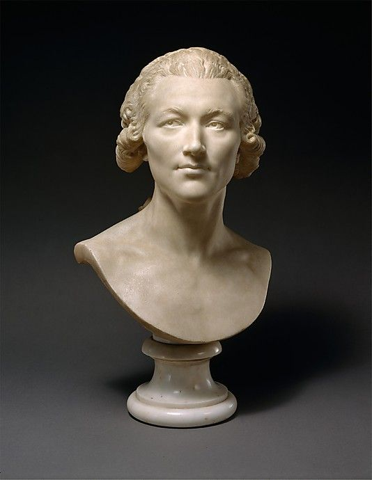 Self-bust of Philippe-Laurent Roland (wider view)